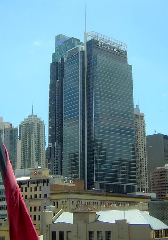 The Latitude (Ernst & Young) Bldg. in Sydney. Cropped from photo taken by me.